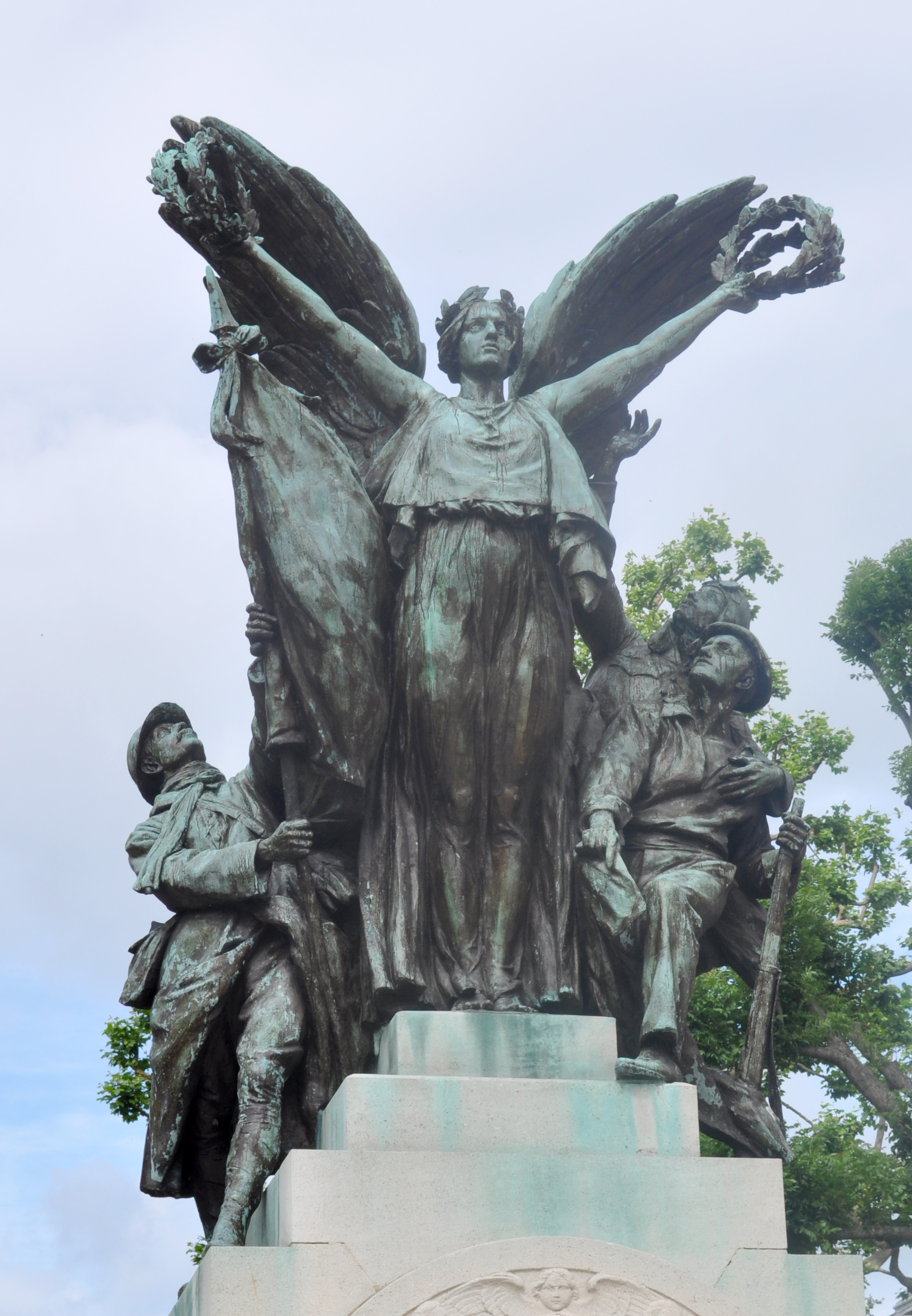 Centered detail of the War memorial at the square Carnot/Boulevard Marèchal Joffre in Dieppe. Designed by architect Georges Feray and sculpted by Ernest Henri Dubois in 1925.